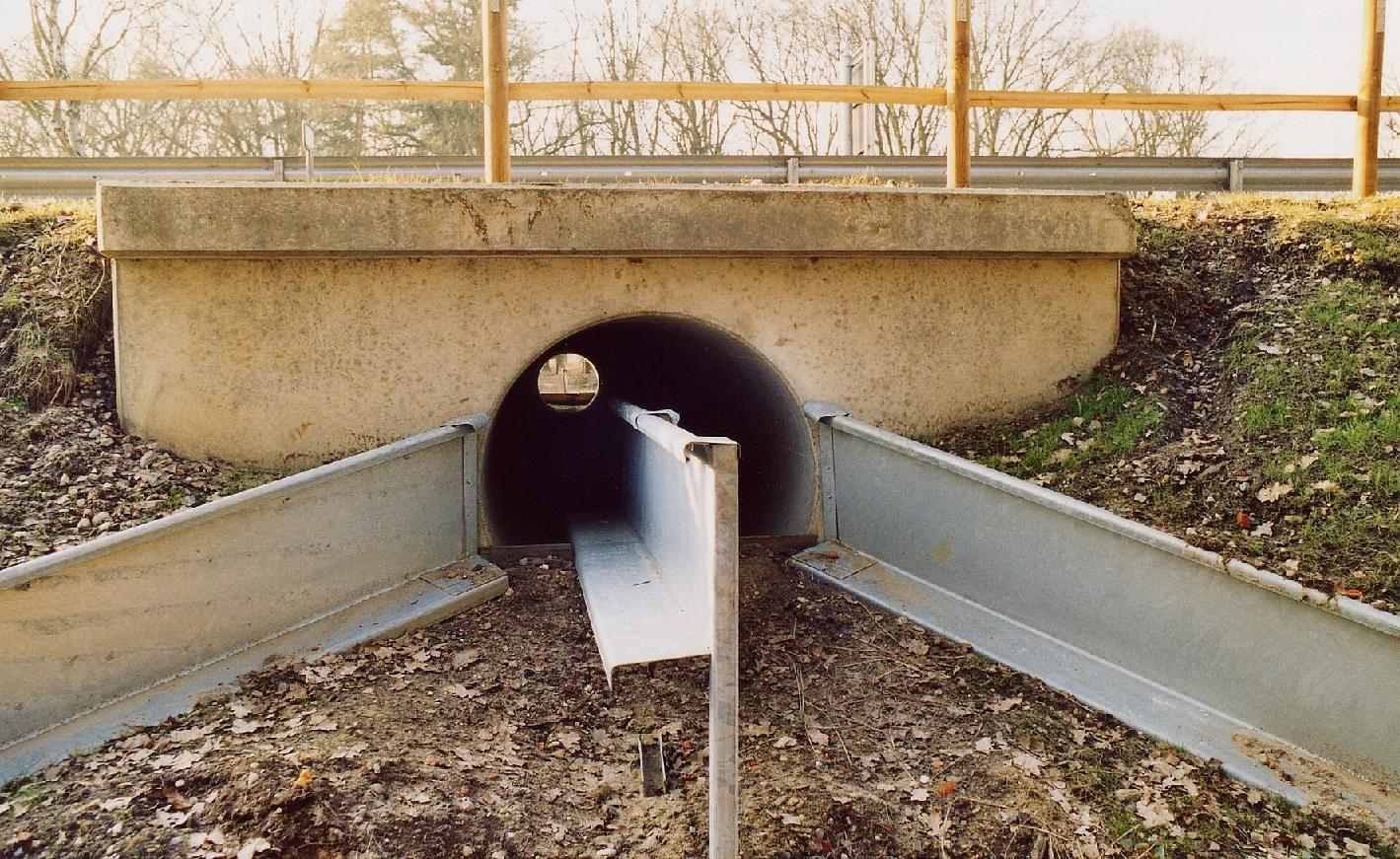 A "tunnel" below a street to prevent migrating amphibians (e.g. toads like Bufo bufo) from being killed. Photo made in northern Germany in March 2003